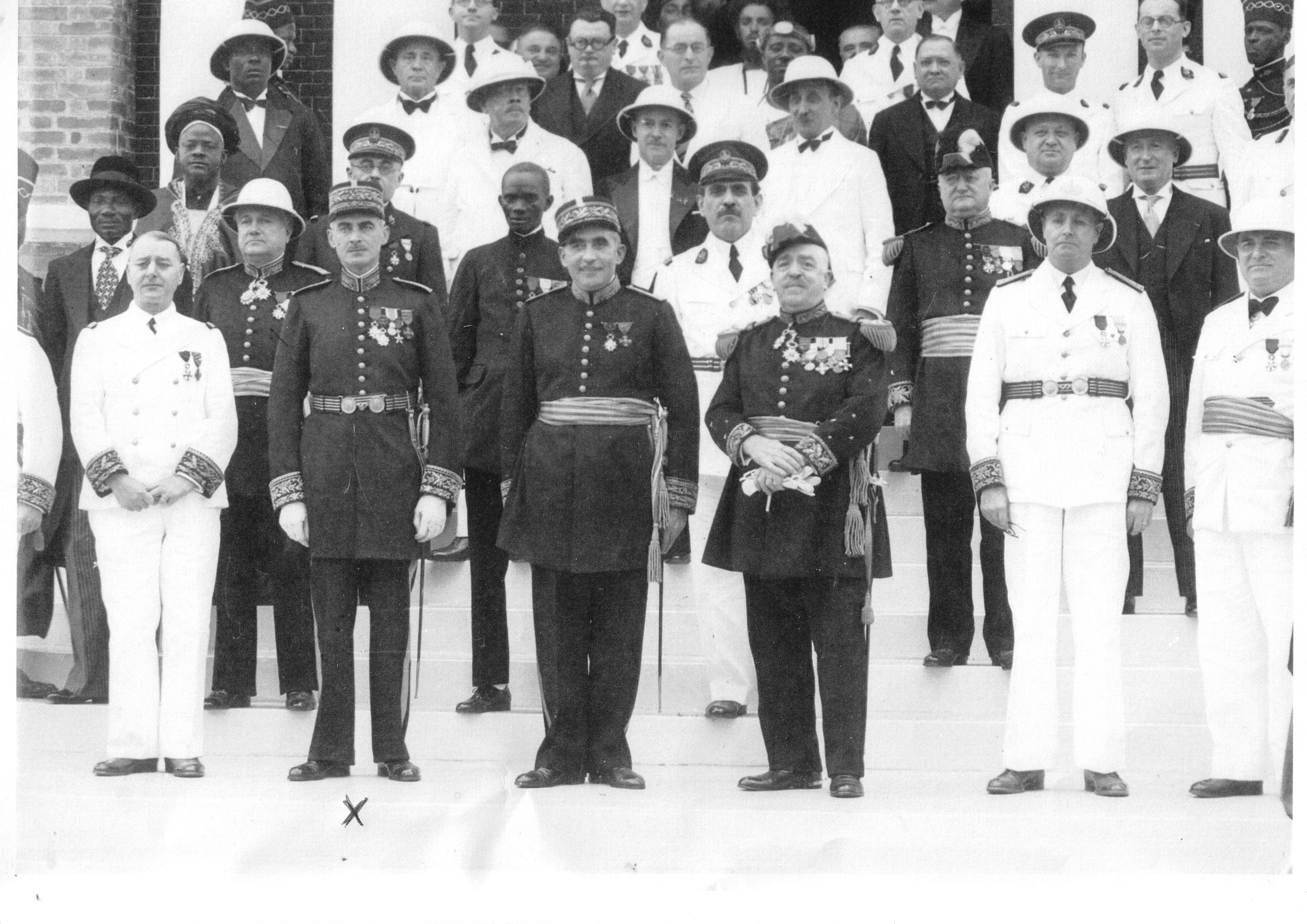 Meeting of governors at the Museum of the Colonies in Paris. Léon Geismar is under the cross.